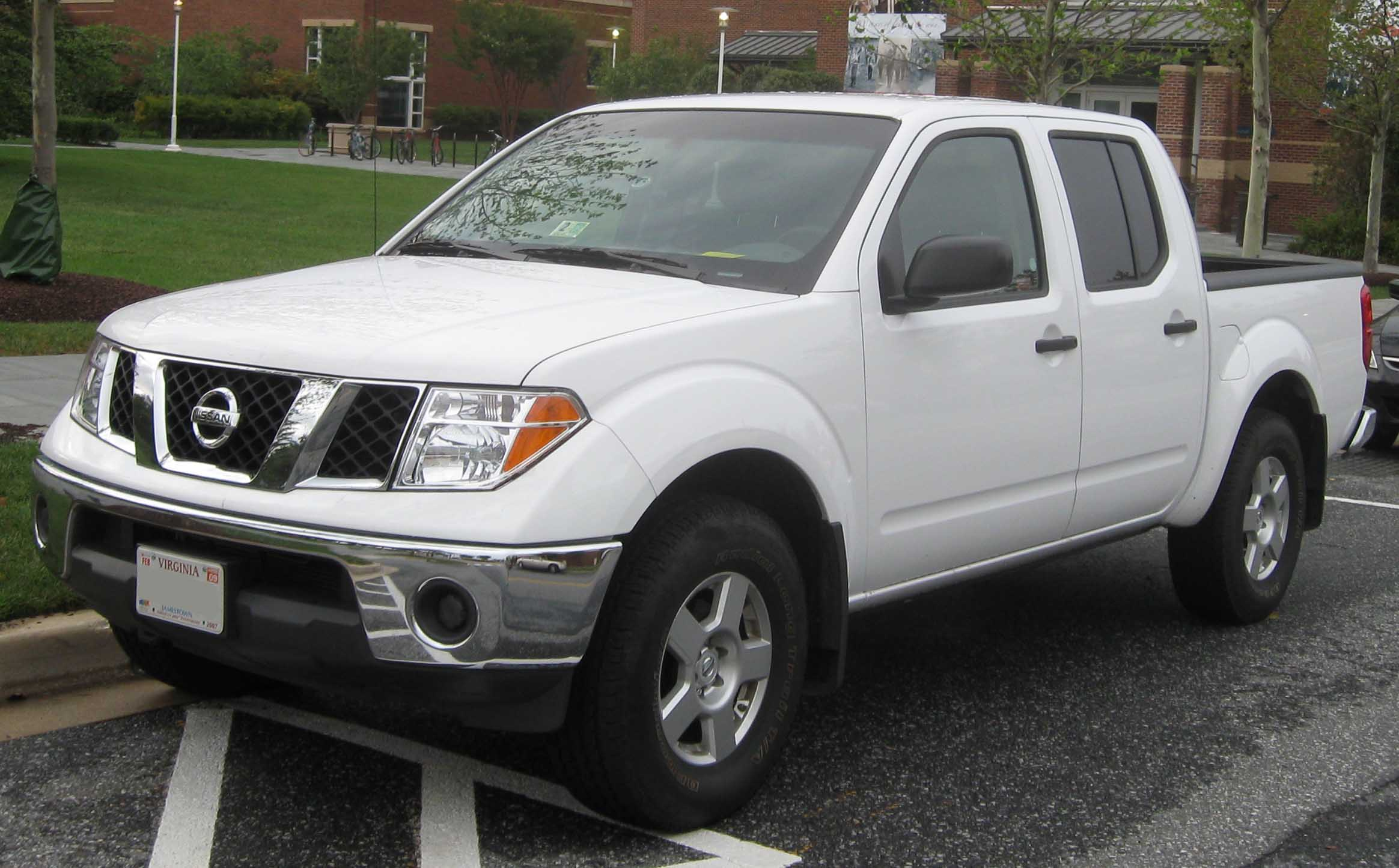 2005-2007 Nissan Frontier photographed in College Park, Maryland, USA.